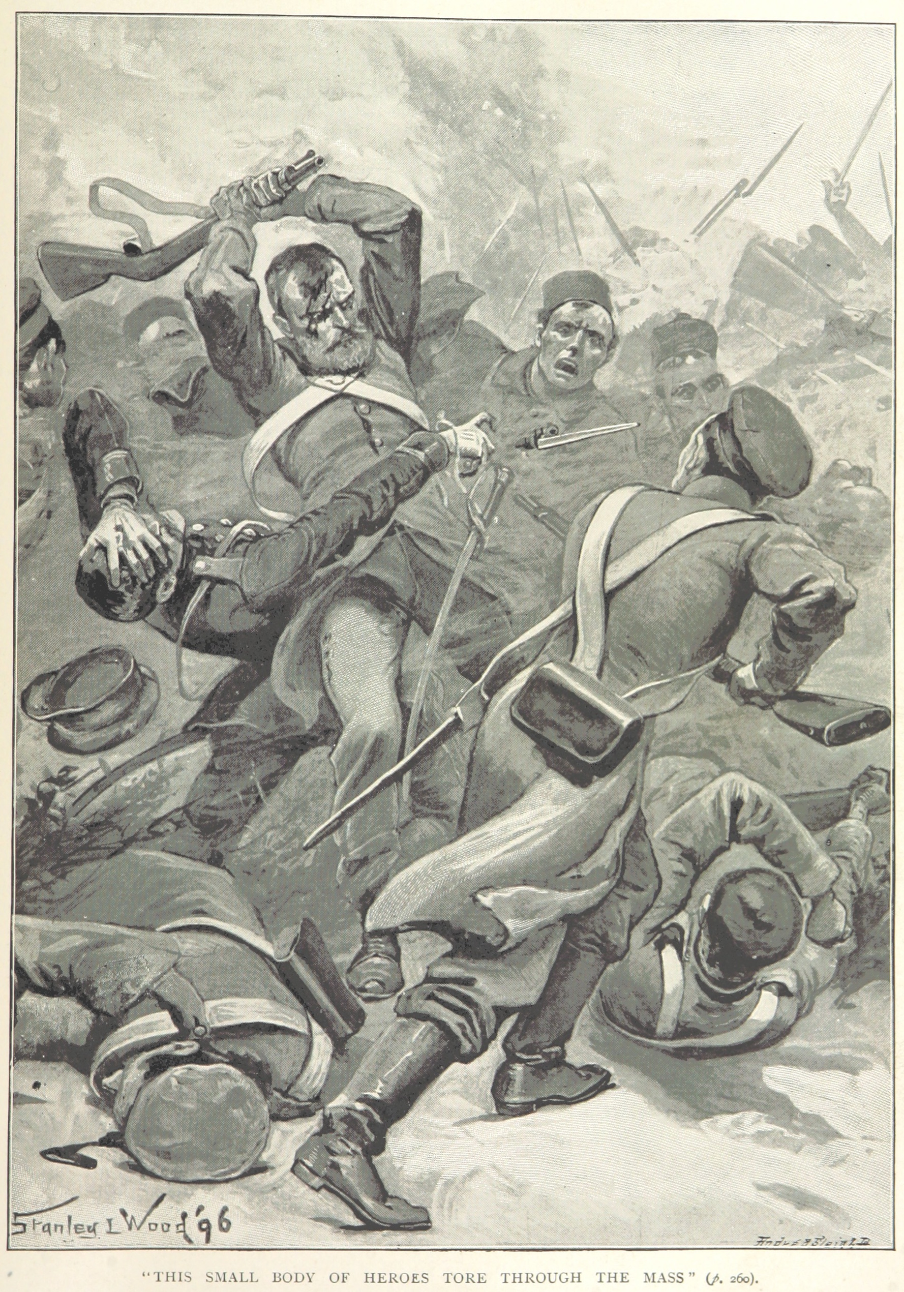 A depiction of the 55th (Westmorland) Regiment of Foot at the Battle of Inkerman.